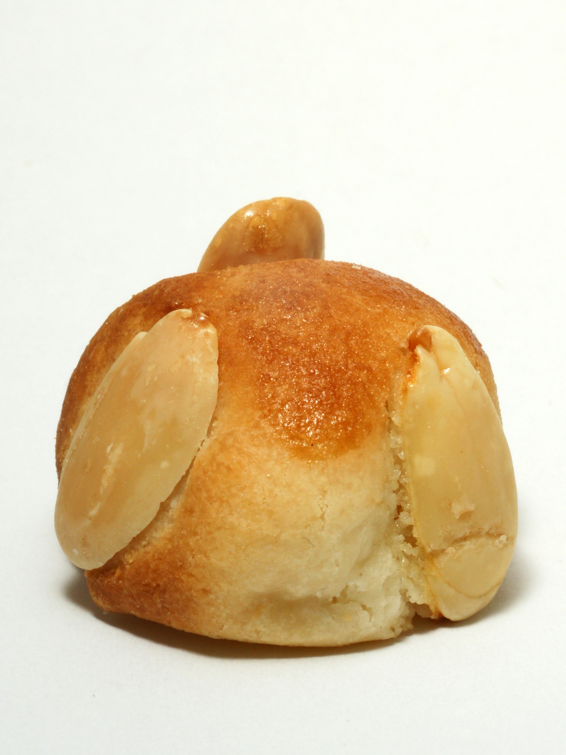 „Bethmännchen“